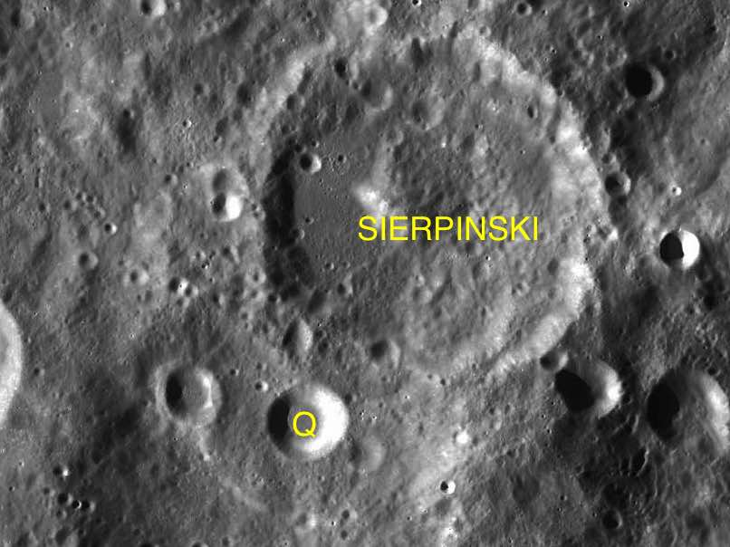 Part of the chart LAC-103 used for the presentation.